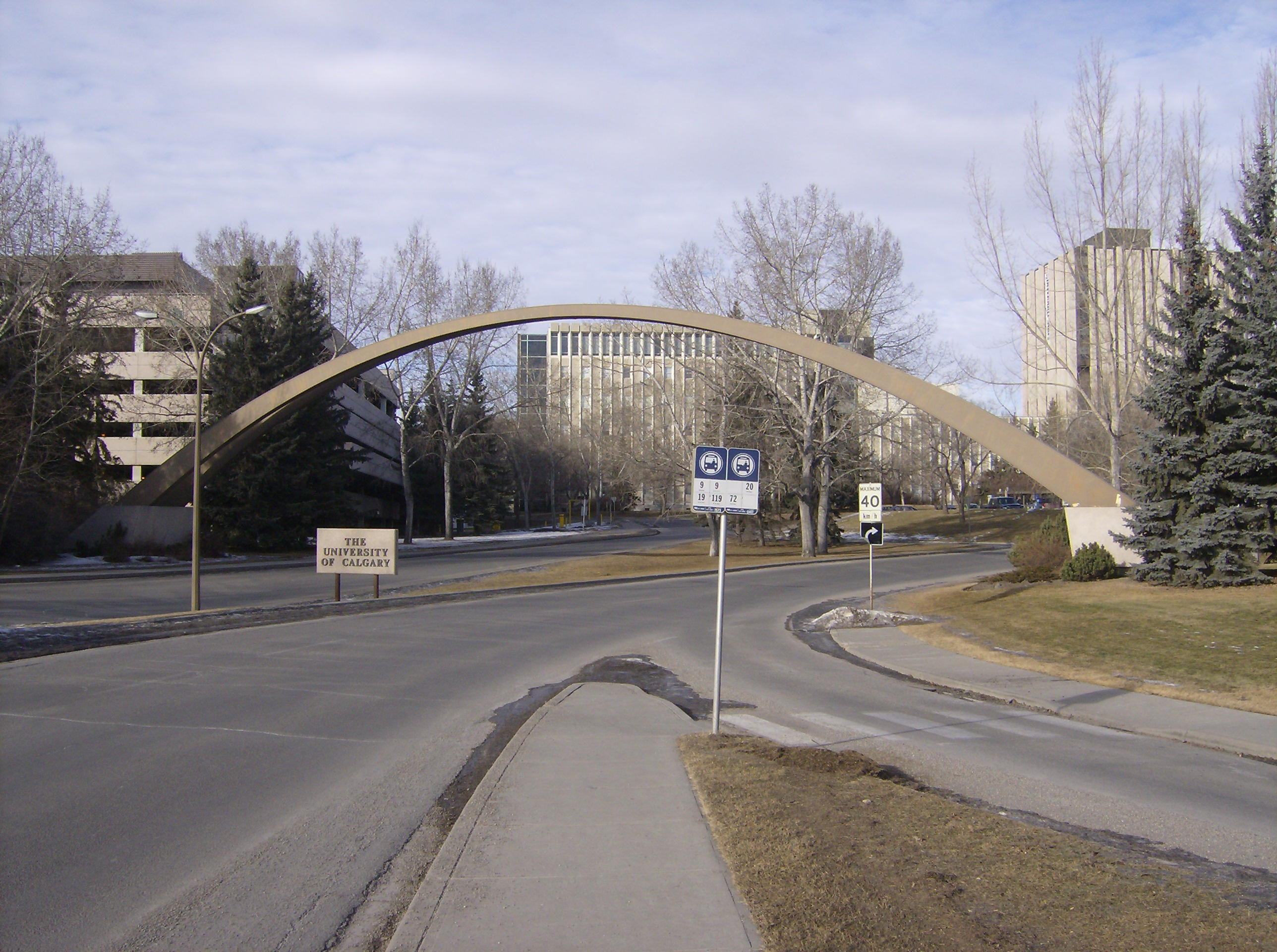 University of Calgary Arch at entry to campus.